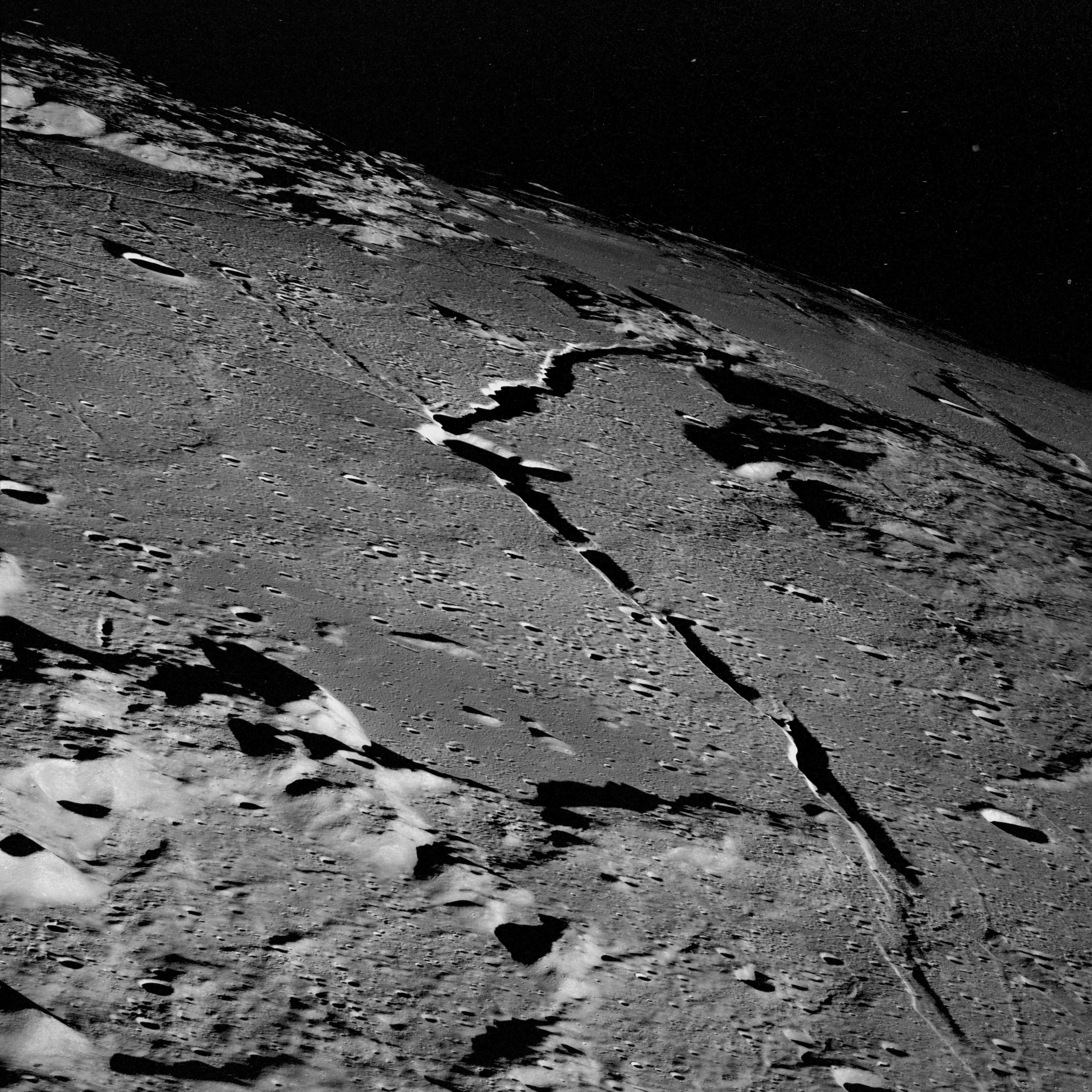 Oblique view of Hyginus crater (center) and Rima Hyginus, on the moon.